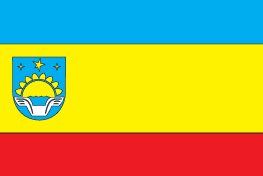 Flag of Kahovskyj rajon